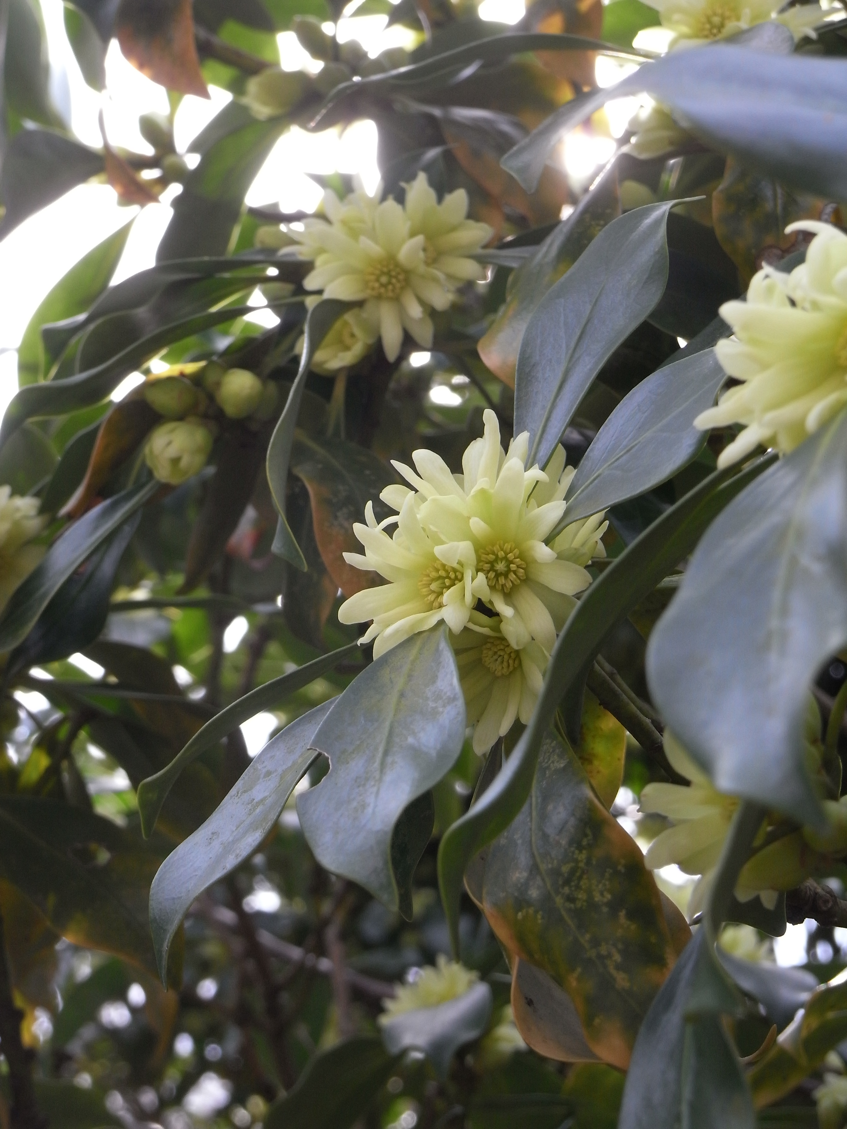 Illicium anisatum シキミが正式名称なんだって。シキビは方言か？？